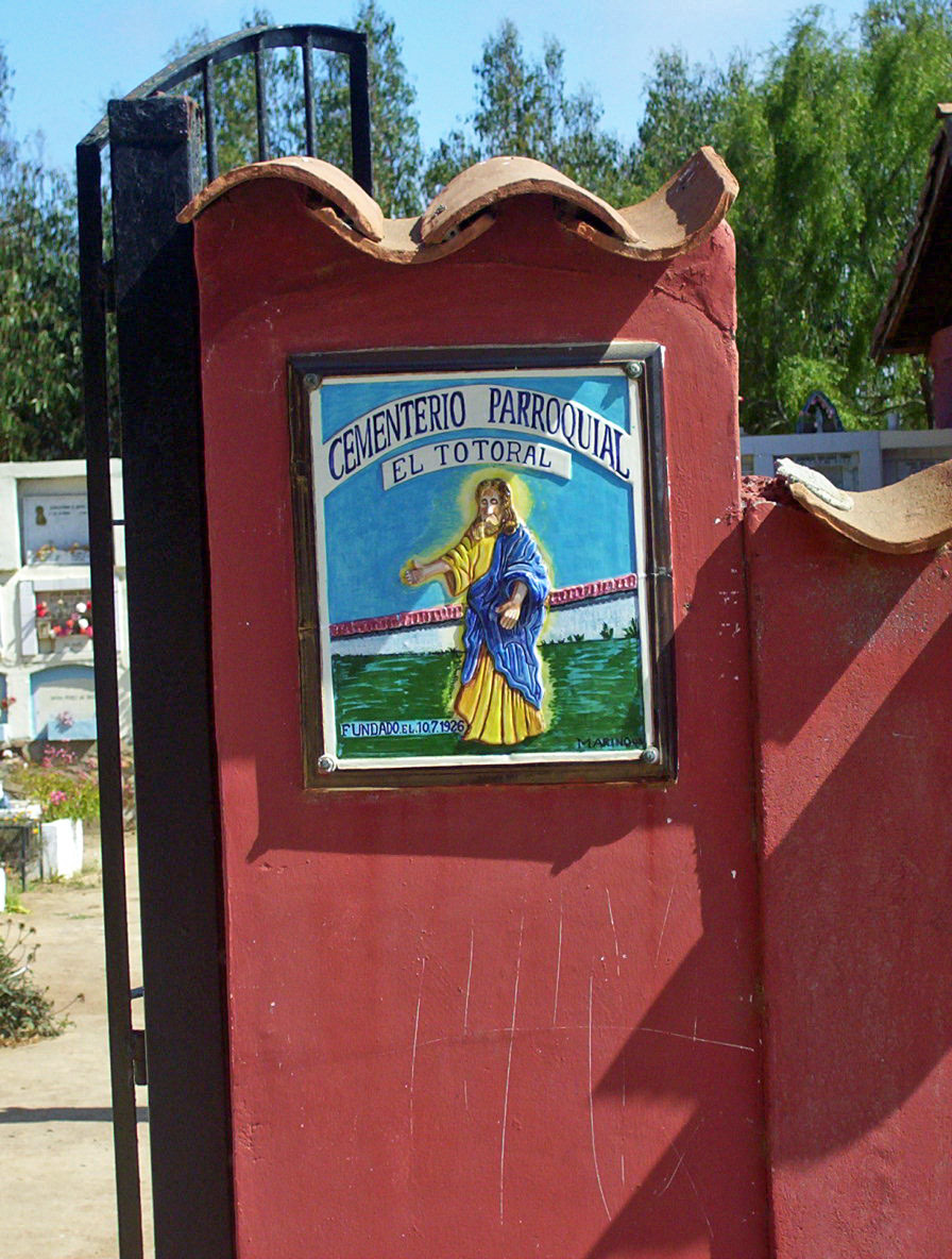 El Totoral , near El Quisco Chile